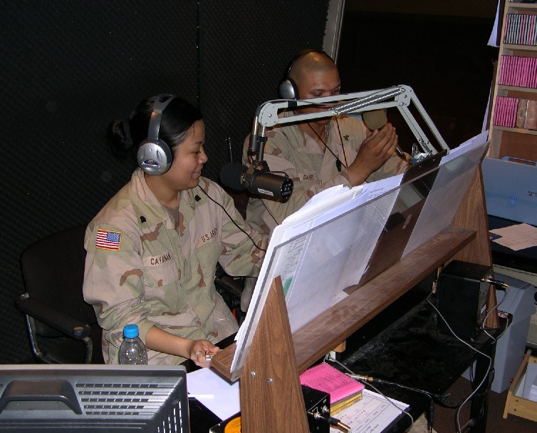 AFN Iraq on-air radio studio. Baghdad, Iraq (April 2004). Photo by Peter Rimar.